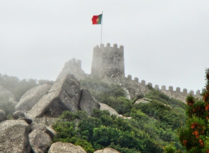 The Moors Castle in the fog